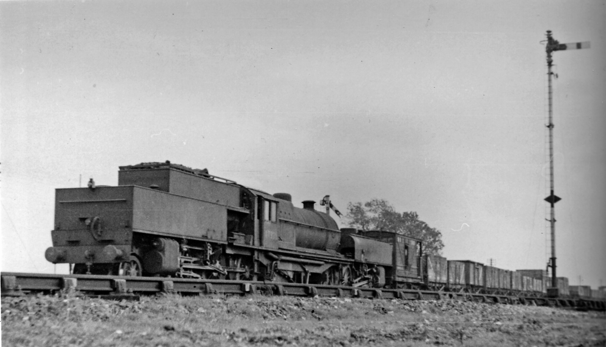 LMS Garratt on Down goods approaching Loughborough. View SE, towards Leicester on the Midand Main Line. Here working a very short train with brake-vans at each end, No. 47999 was built (as 47999) in 11/30, the last of the Fowler/Beyer Peacock Garratts, withdrawn in 1/56. (Nos. 47998 and 47999 were the only two of the 33 which were not fitted with revolving coal-bunkers).